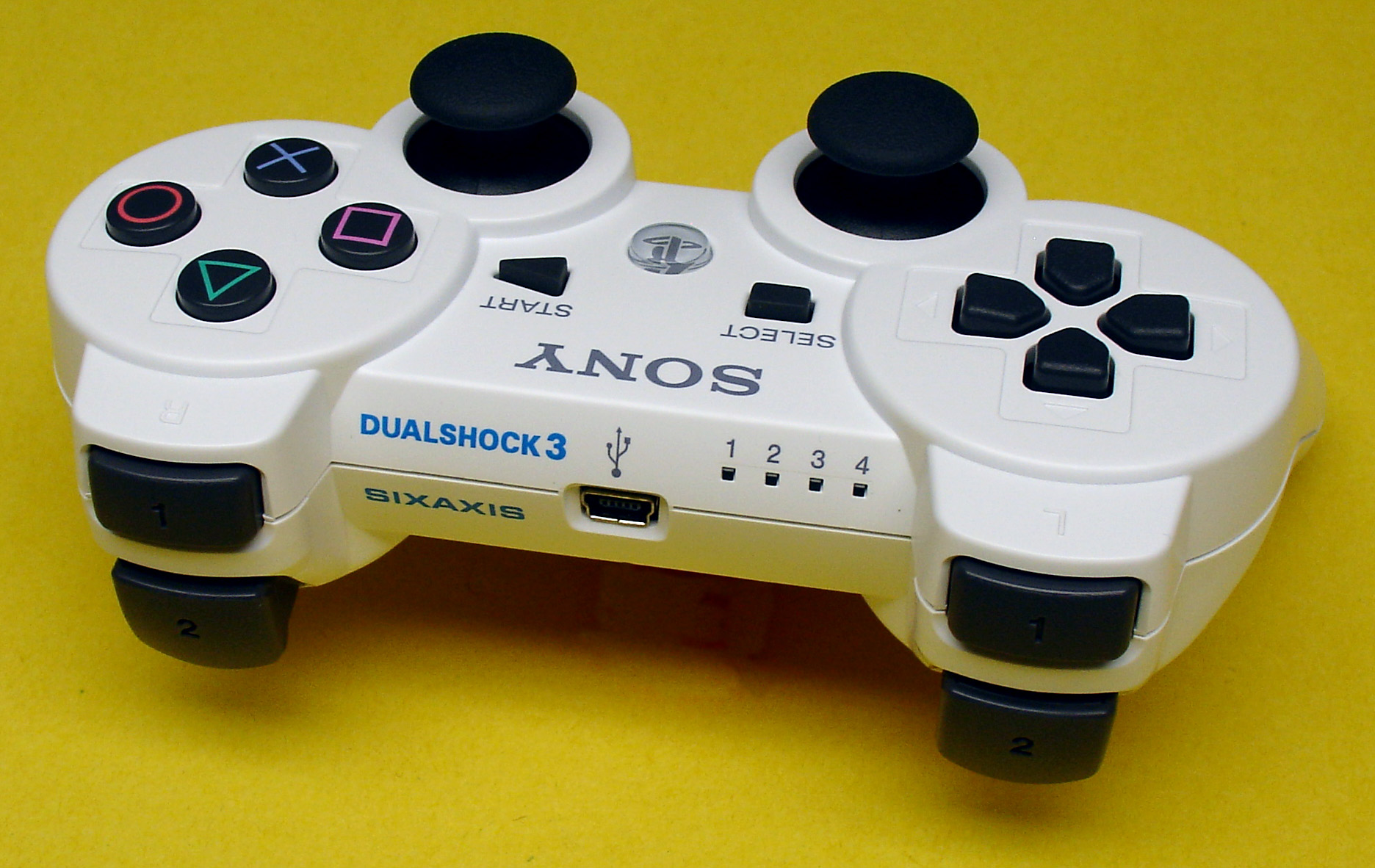 Ceramic White Sony DualShock 3 controller (JPN model), top 3/4 view with top markings visible.